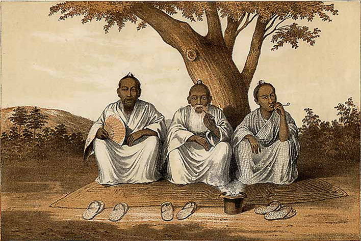 "Afternoon Gossip, Lew Chew"